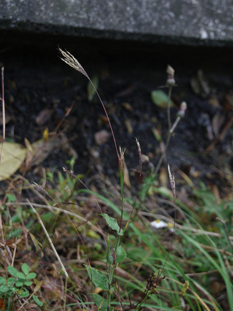 Arthraxon hispidus (Poaceae) Japanese name:Kobunagusa:コブナグサ Date;2009.11.08;Natikatuura Town,Wakayama prefecture, Japan Author;Keisotyo